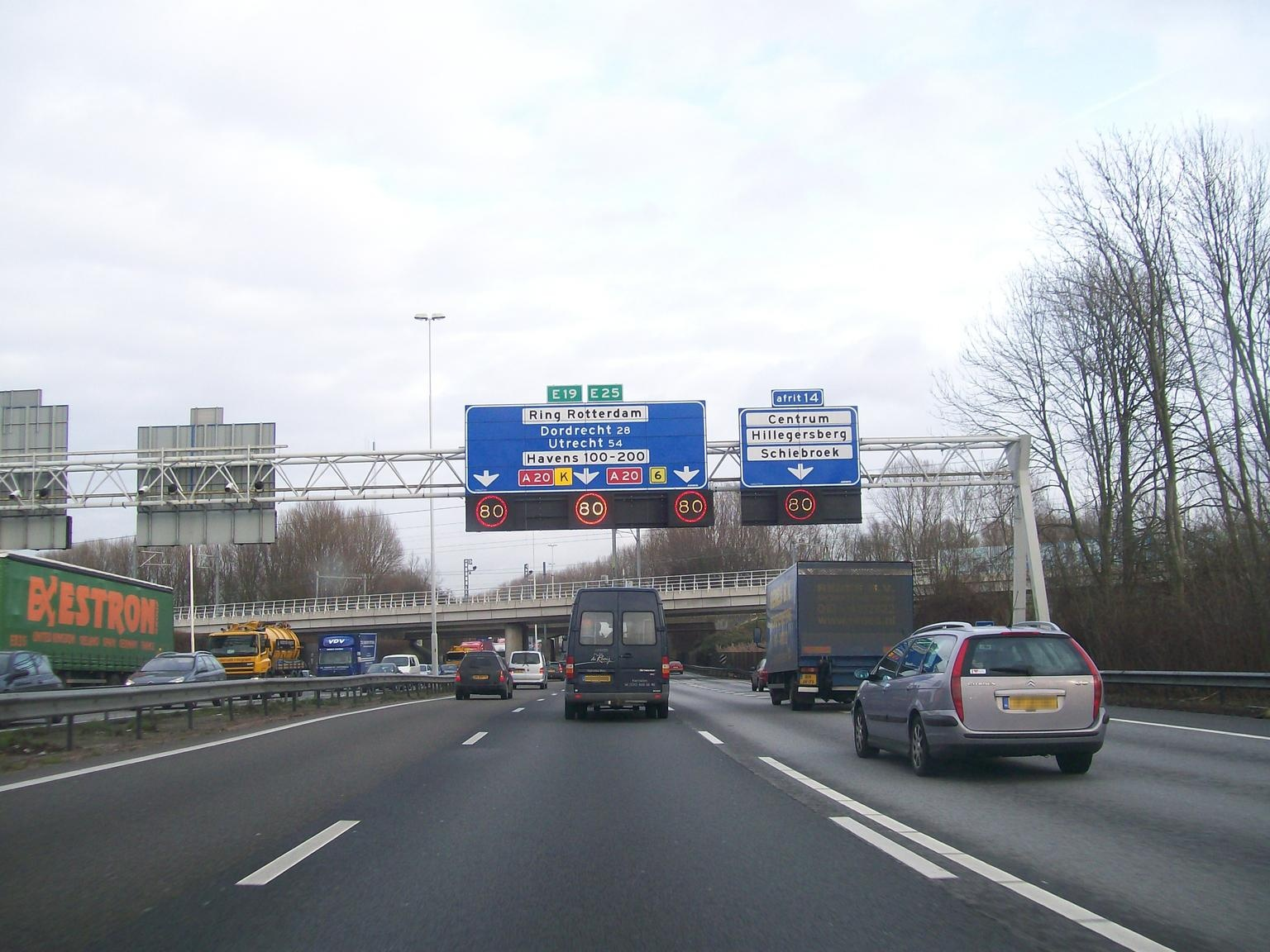 Rijksweg A20 near Rotterdam with maximum speed 80 km/h